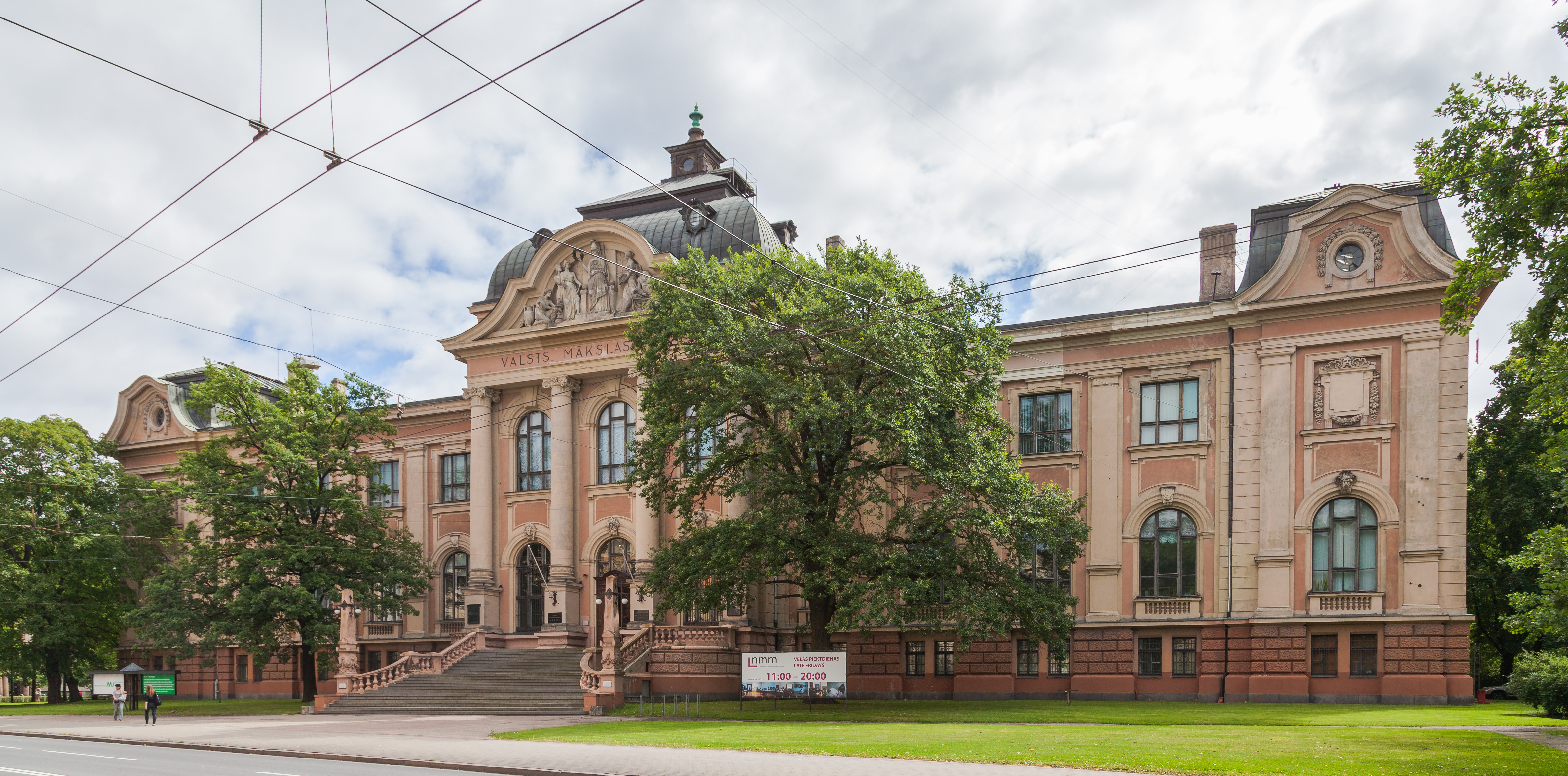 Latvian National Museum of Arts, Riga, Latvia